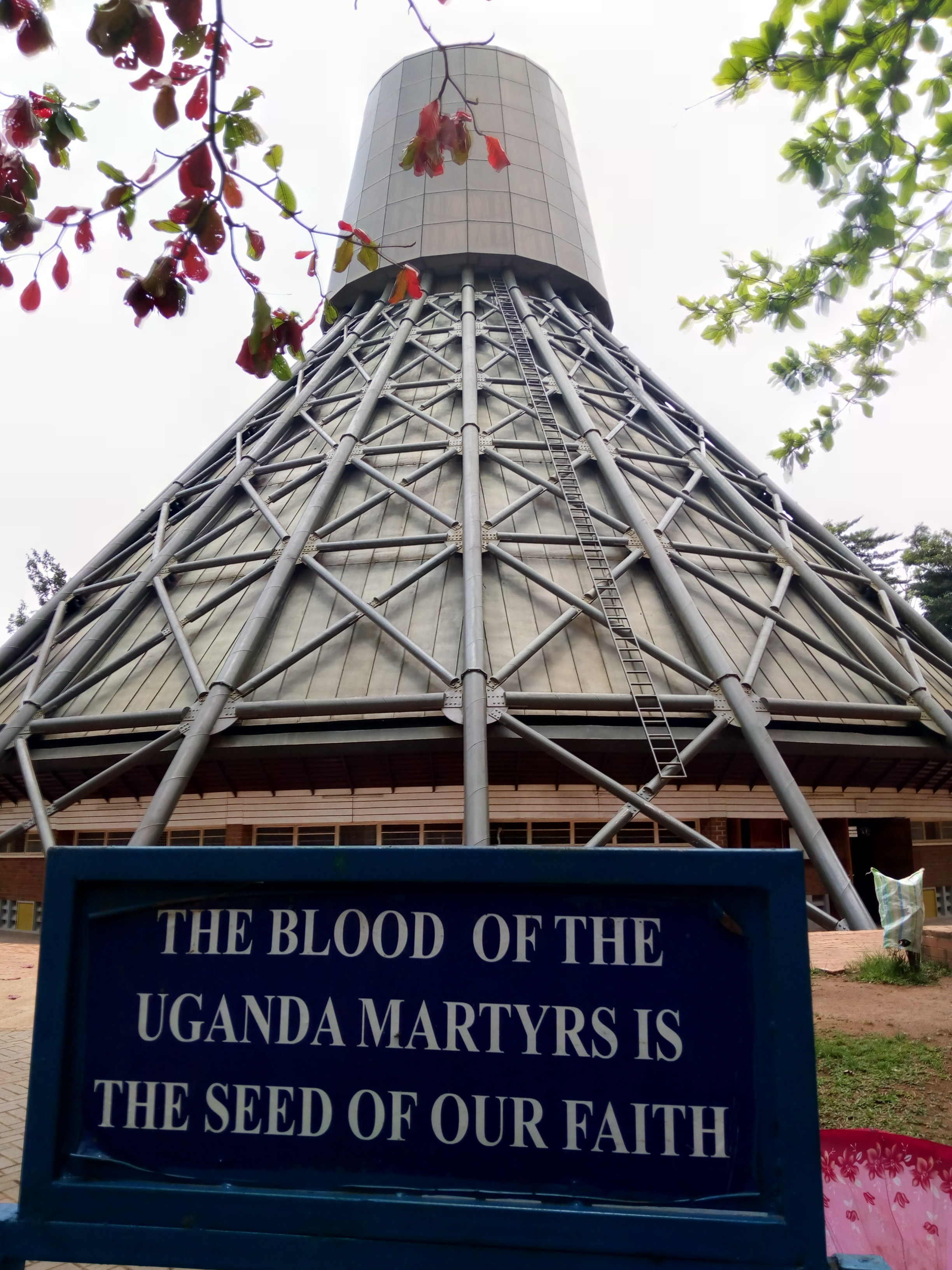 Appearance of UGANDA MARTYRS CATHOLIC SHRINE NAMUGONGO. The photo depicts how the martyrs died. The metallic pillars covering the church depicts the fire woods that were used to burn the martyrs